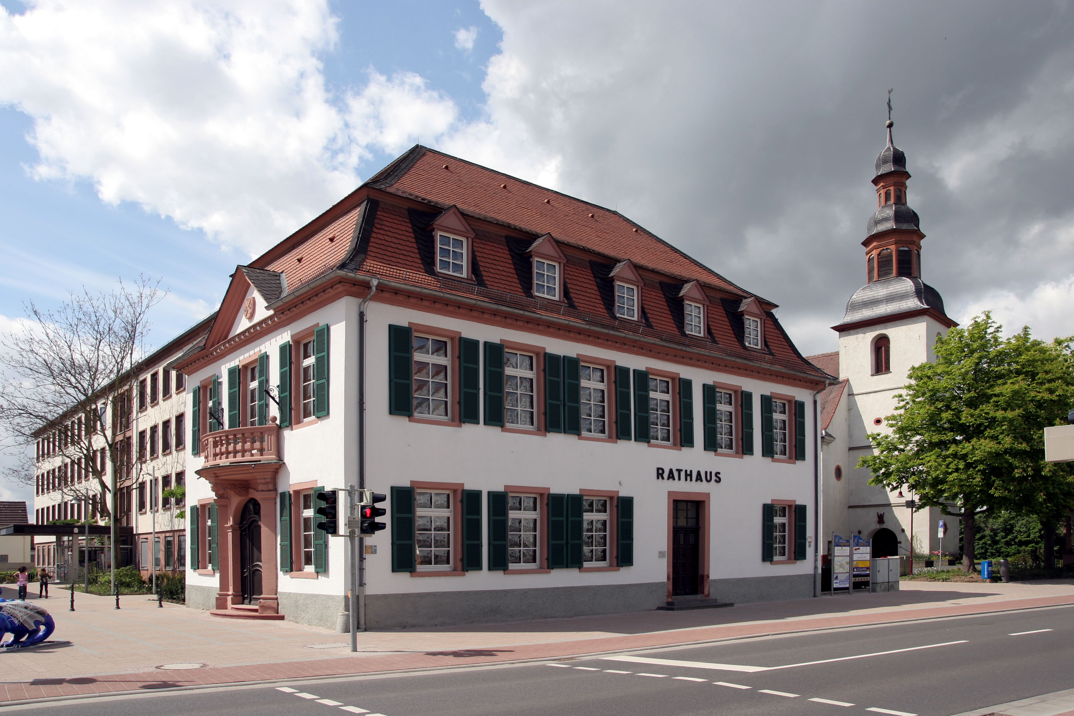 the old city hall of Lampertheim (Hesse, Germany)